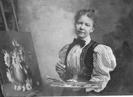 Marie Madeleine Seebold Molinary, from "Some Notables of New Orleans", an 1896 publication.